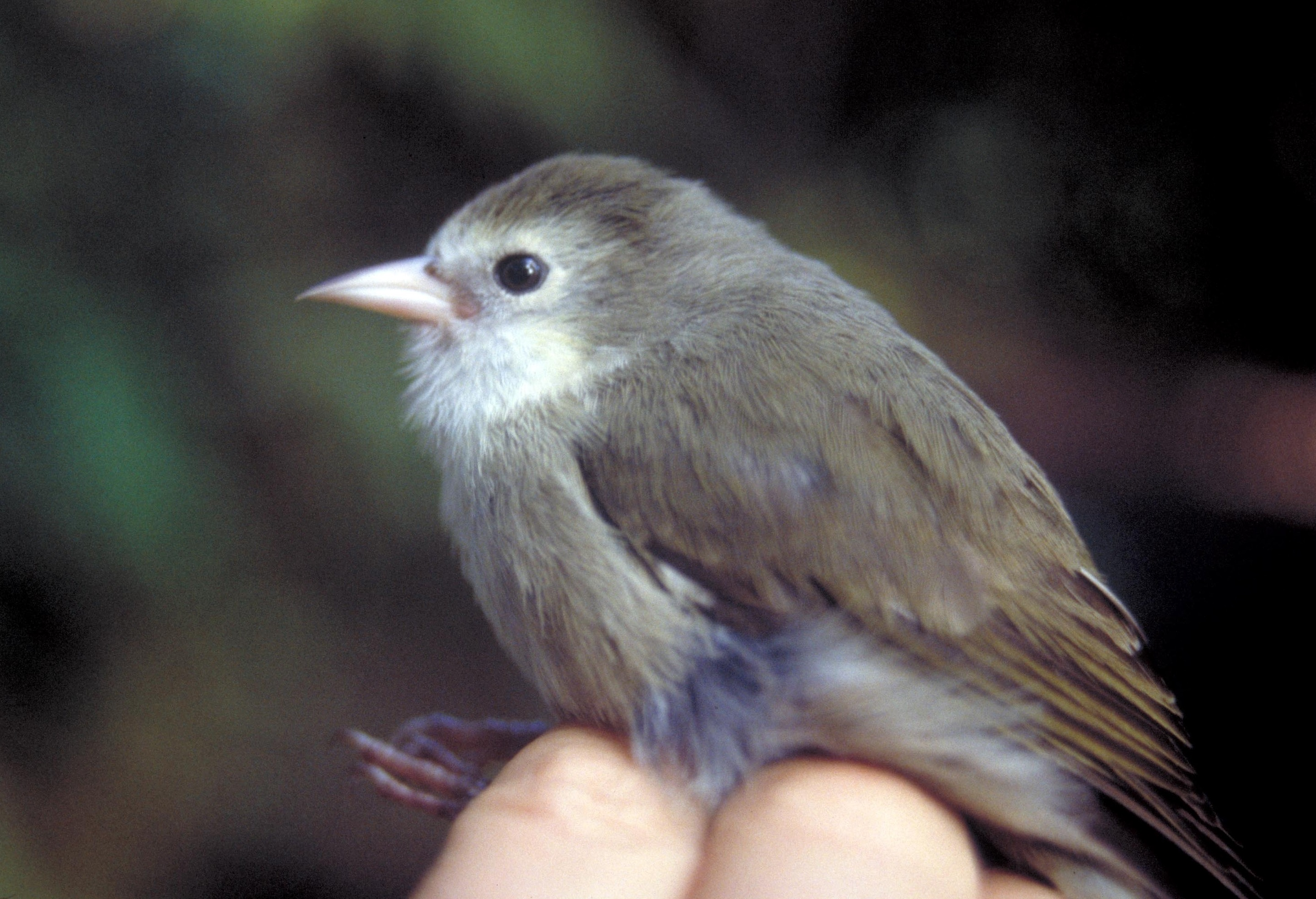 `Akikiki or Kaua`i Creeper (Oreomystis bairdi), a Hawaiian honeycreeper